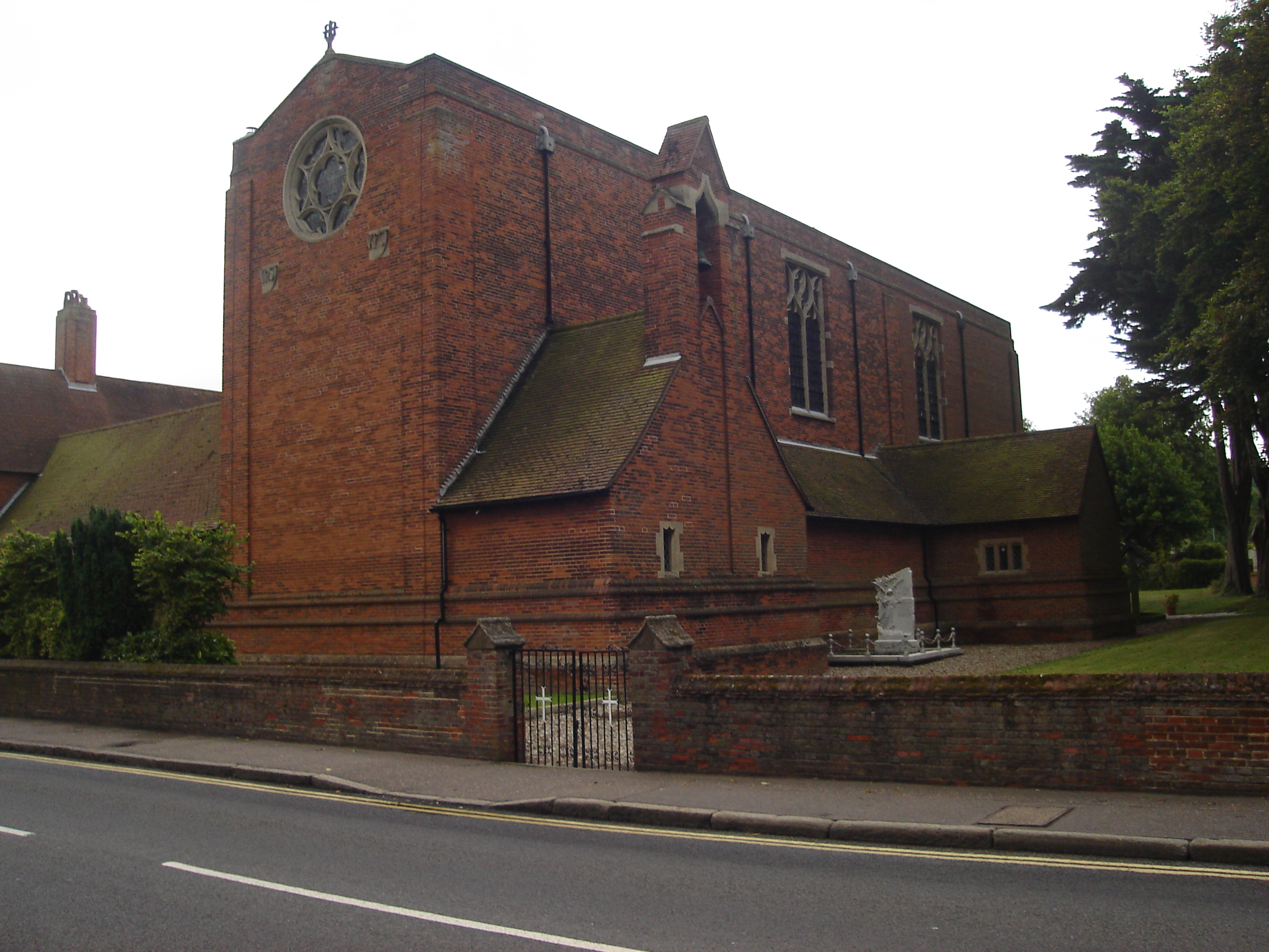 Picture of St Joseph's church at Sheringham,Norfolk